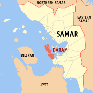 Map of Samar showing the location of Daram